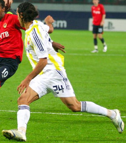 Deniz Barış